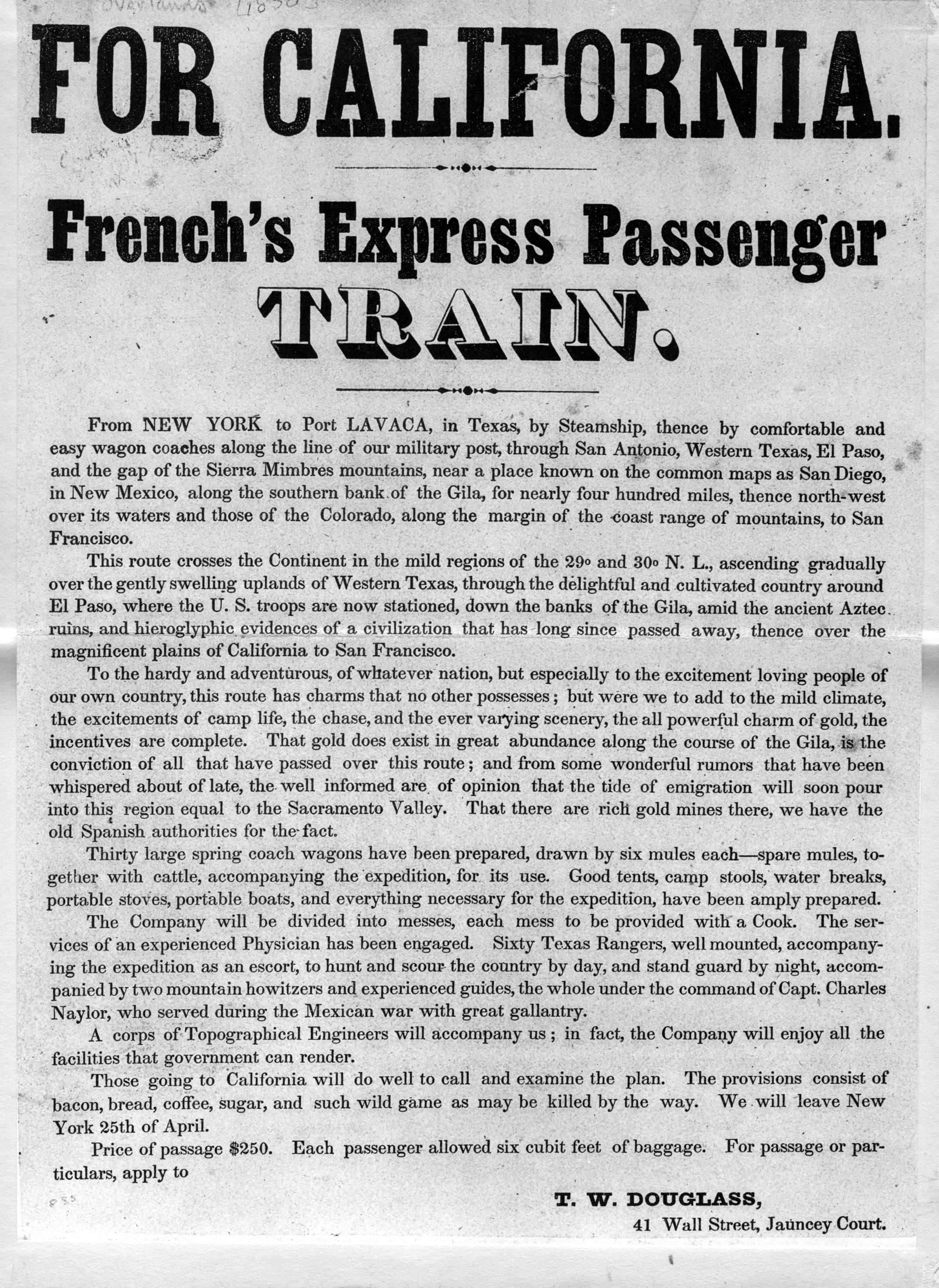 A dodger created by Parker French in 1850